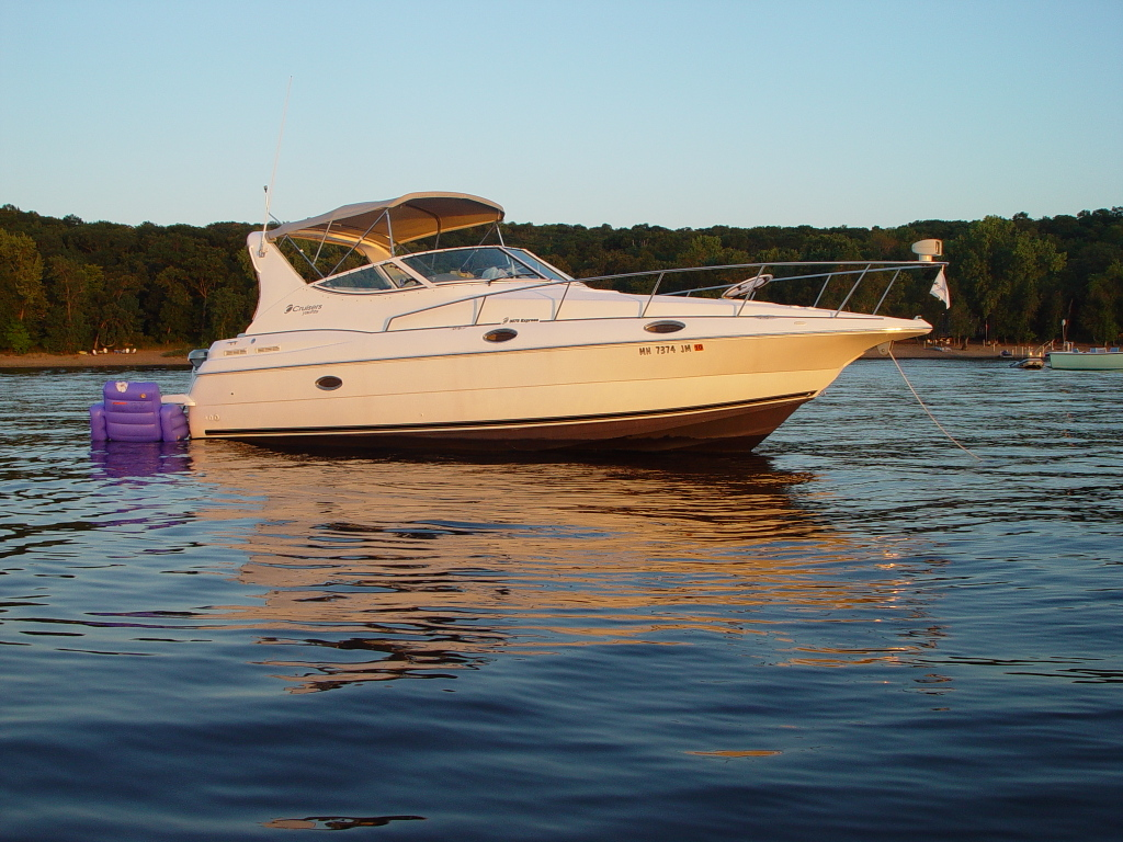 Our 2002 Cruisers Yachts 3075 Express at anchor, on the St. Croix River near Afton, MN.